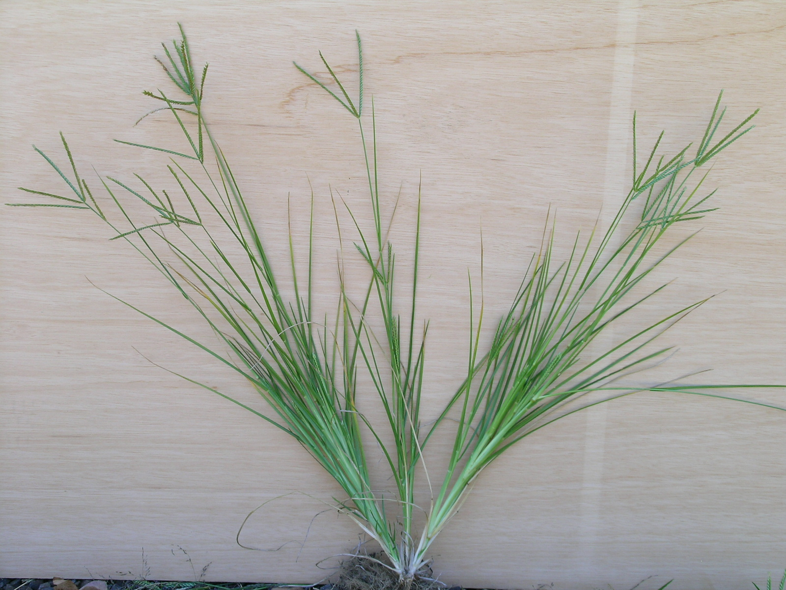 Tufted grass to 80 cm tall. A native of Africa and India, it is a common weed of cultivation and disturbed areas. Also common in bared or compacted areas along roadsides, around gateways and in lawns.